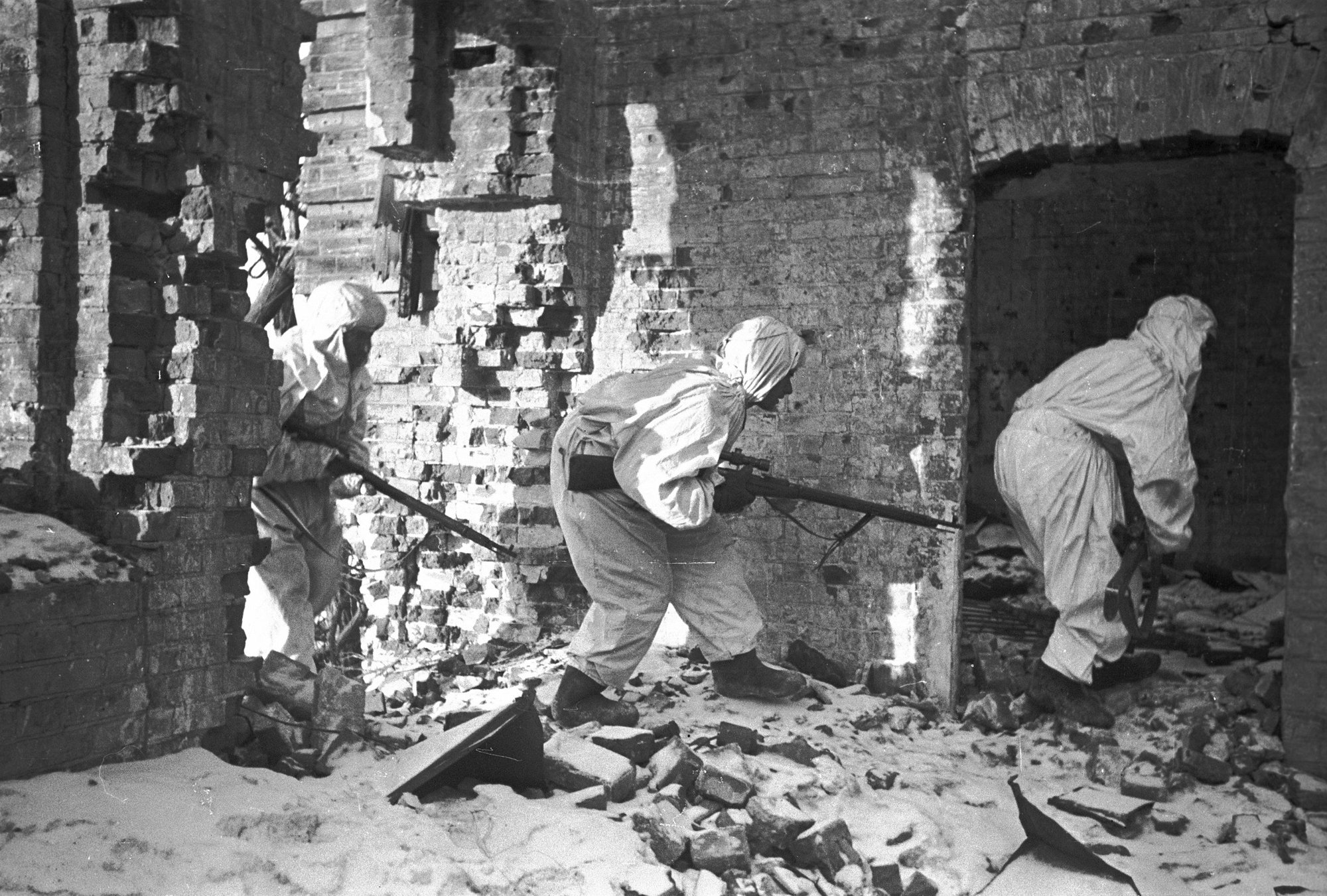 “Snipers”. Snipers in camouflage cloaks entering a destroyed house.